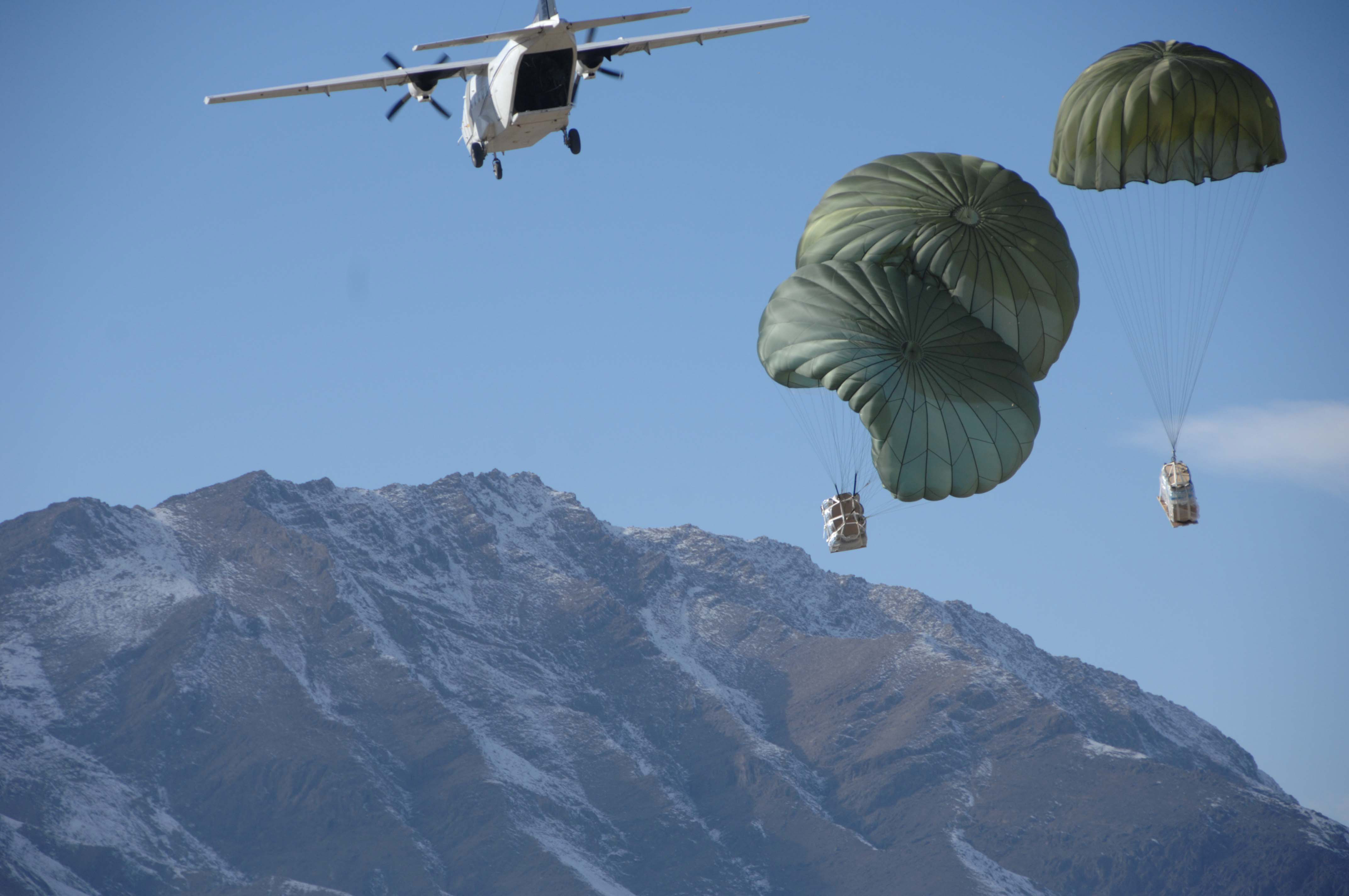 U.S. Army Soldiers conduct a test near Kabul, Afghanistan, Dec. 28, 2007, of a new delivery system for getting Class I, III, and V items to troops on the ground for extended missions. (U.S. Army photo by Spc. John P. Ledington) (